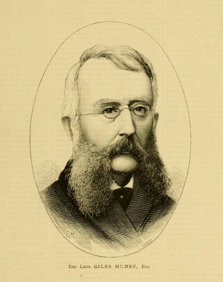 Portrait of Giles Munby (1813–1876), English botanist.